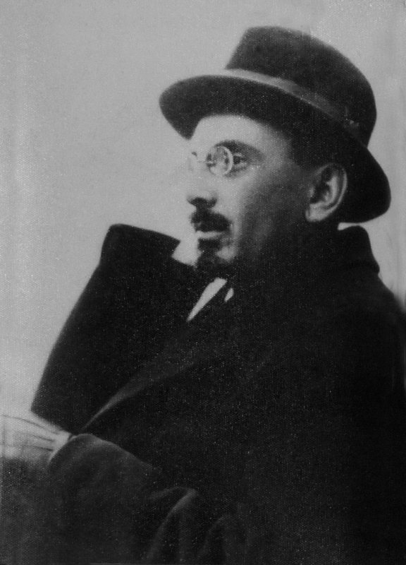 Georgian writer, Mikheil Javakhishvili pictured in Russia